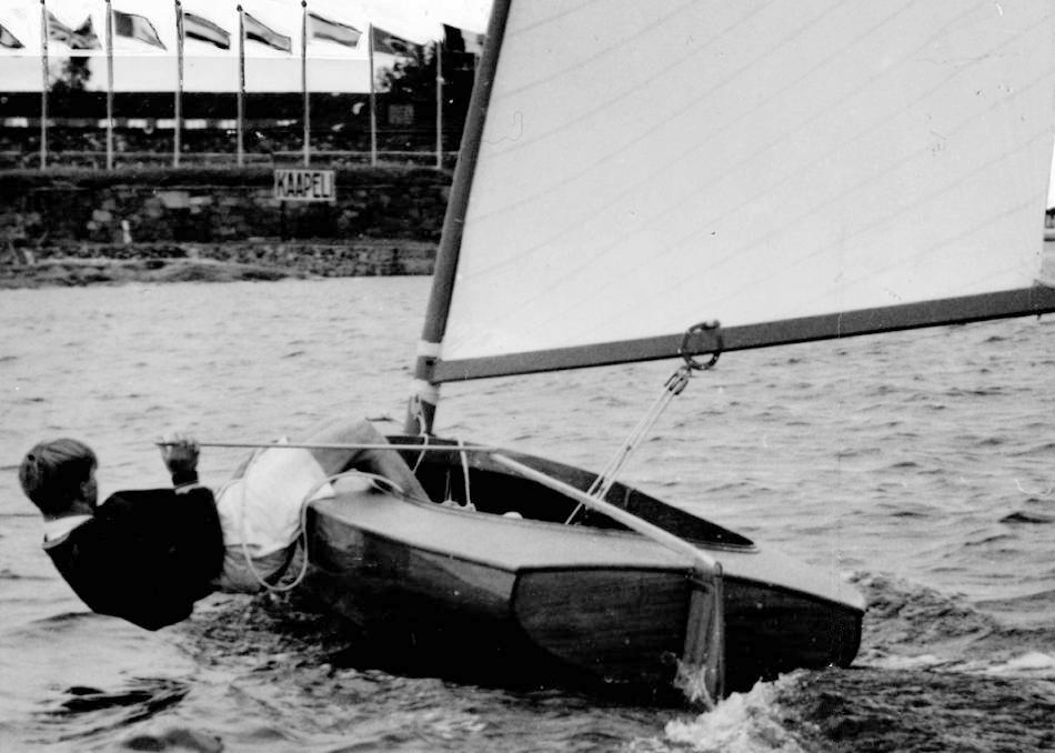 Paul Elvstrøm at the 1952 Olympics